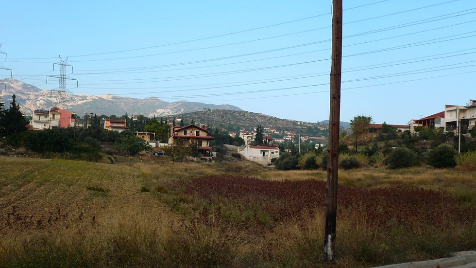 The picture depicts fields at Gerakas.